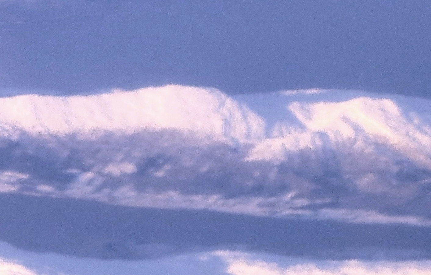 Aerial photo of Handnesøya in Winter